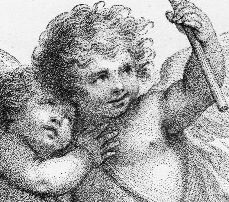 A detail of a stipple engaving by Francesco Bartolozzi, showing technique.